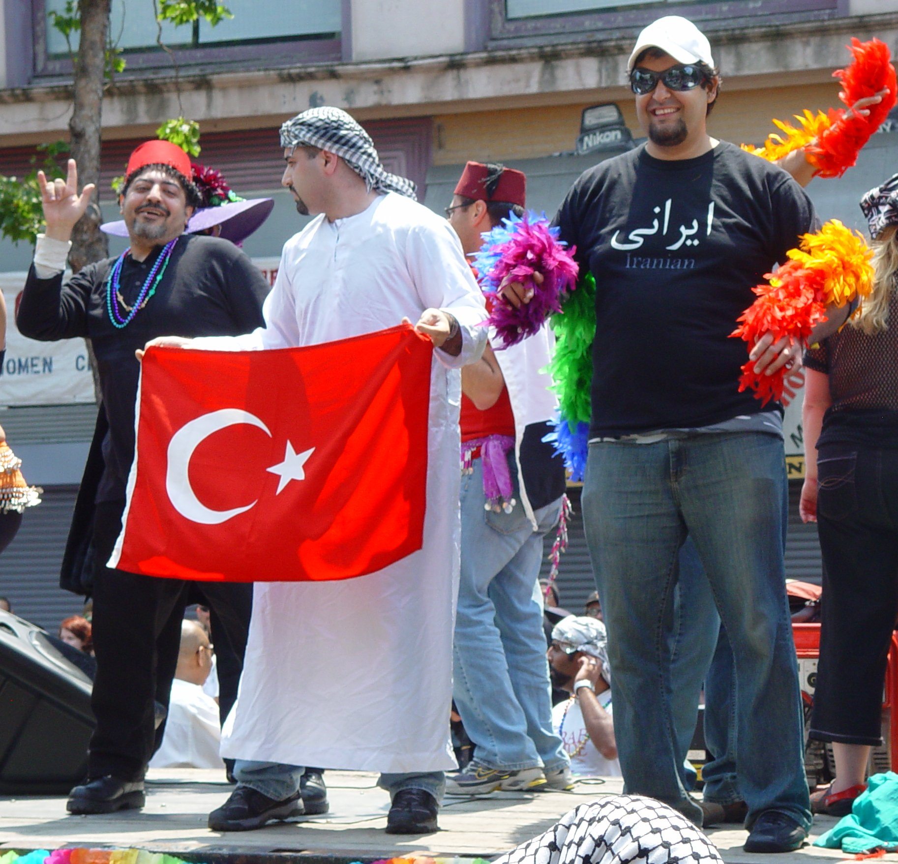 Al-Fatiha Muslim Gays - Gay Parade 2008 in San Francisco